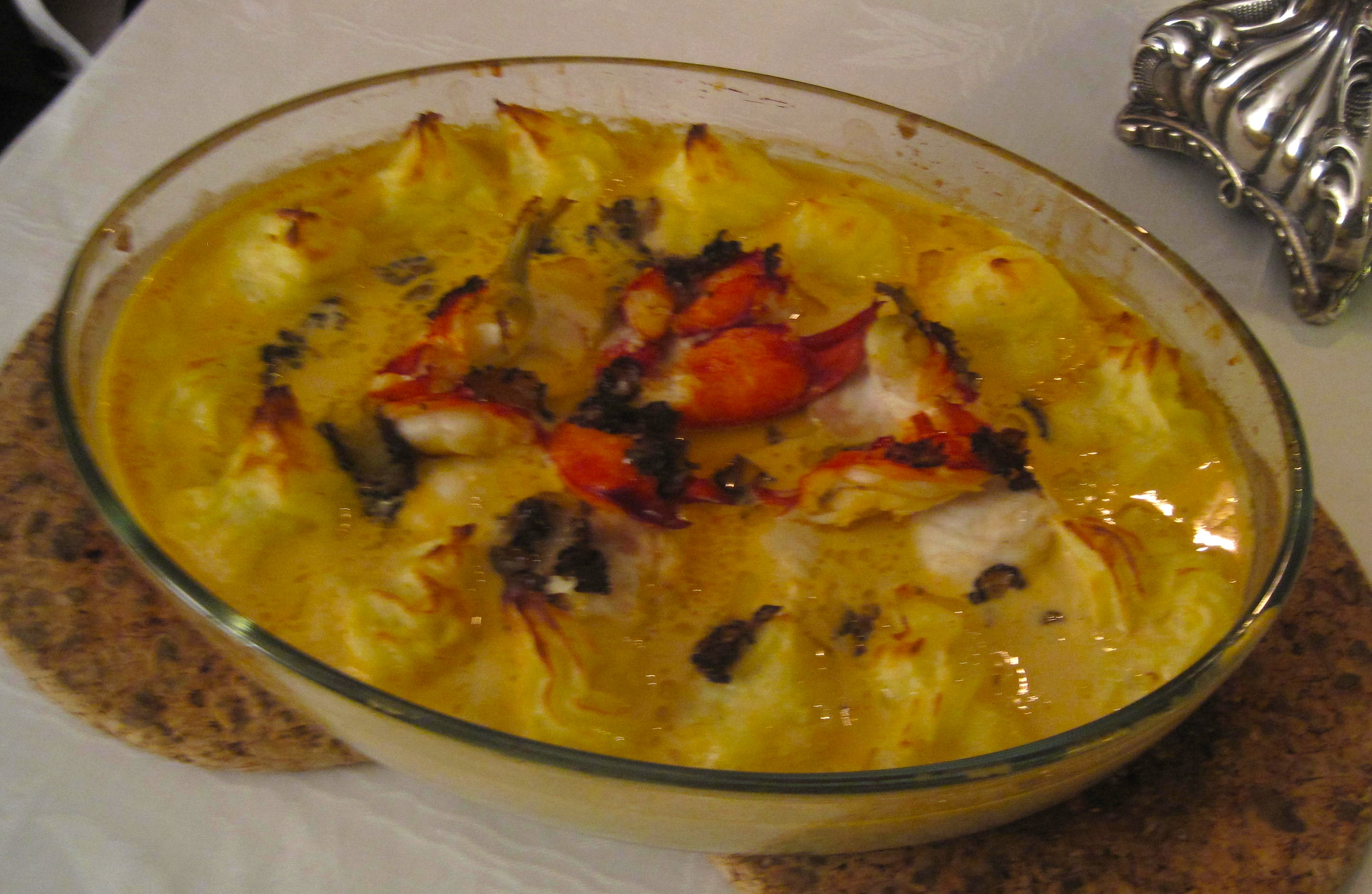 Sole Walewska, a classic fish dish named after the daughter-in-law of Napoleon's mistress Marie Walewska.